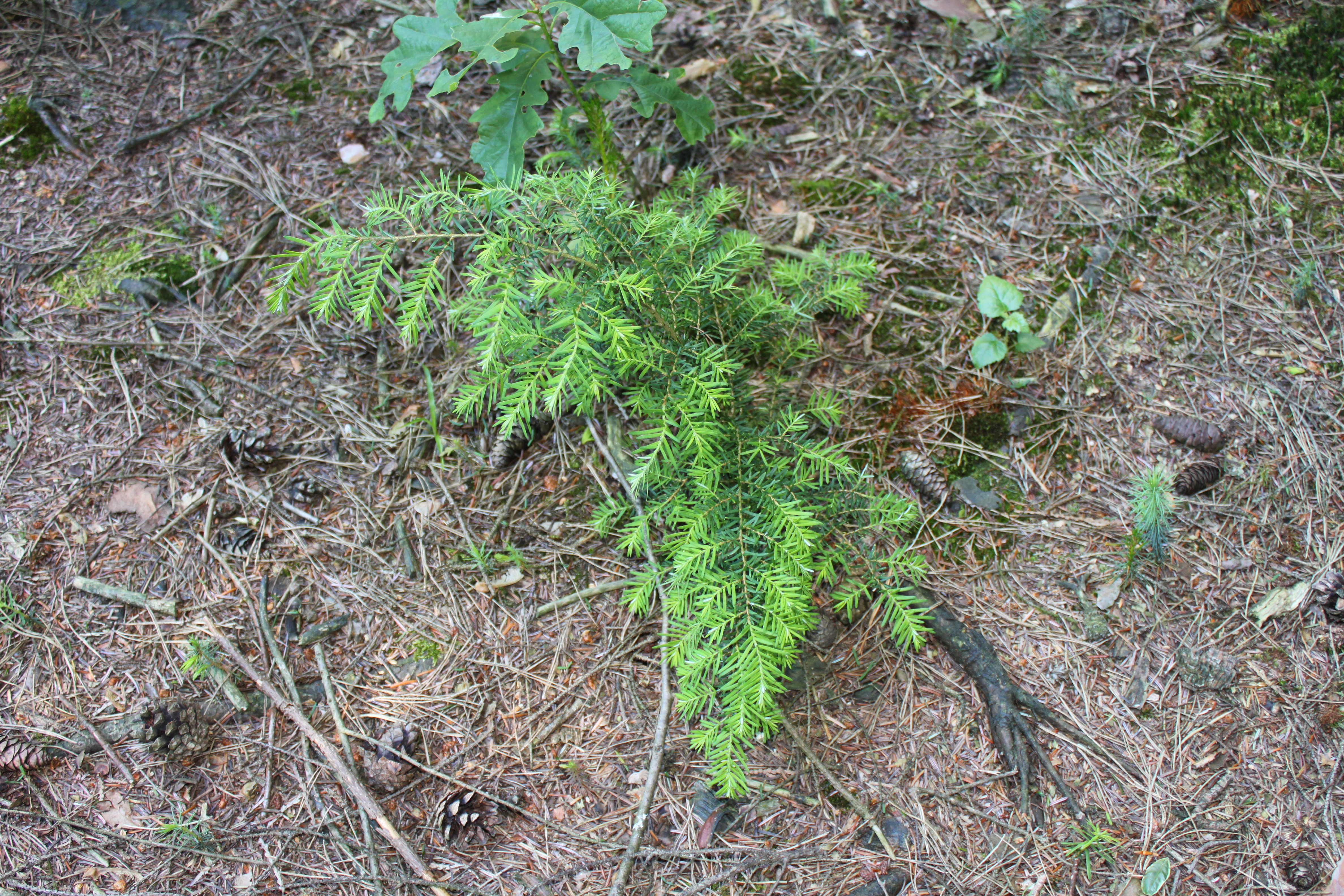 Tsuga heterophylla young plant; Rogów Arboretum, Poland